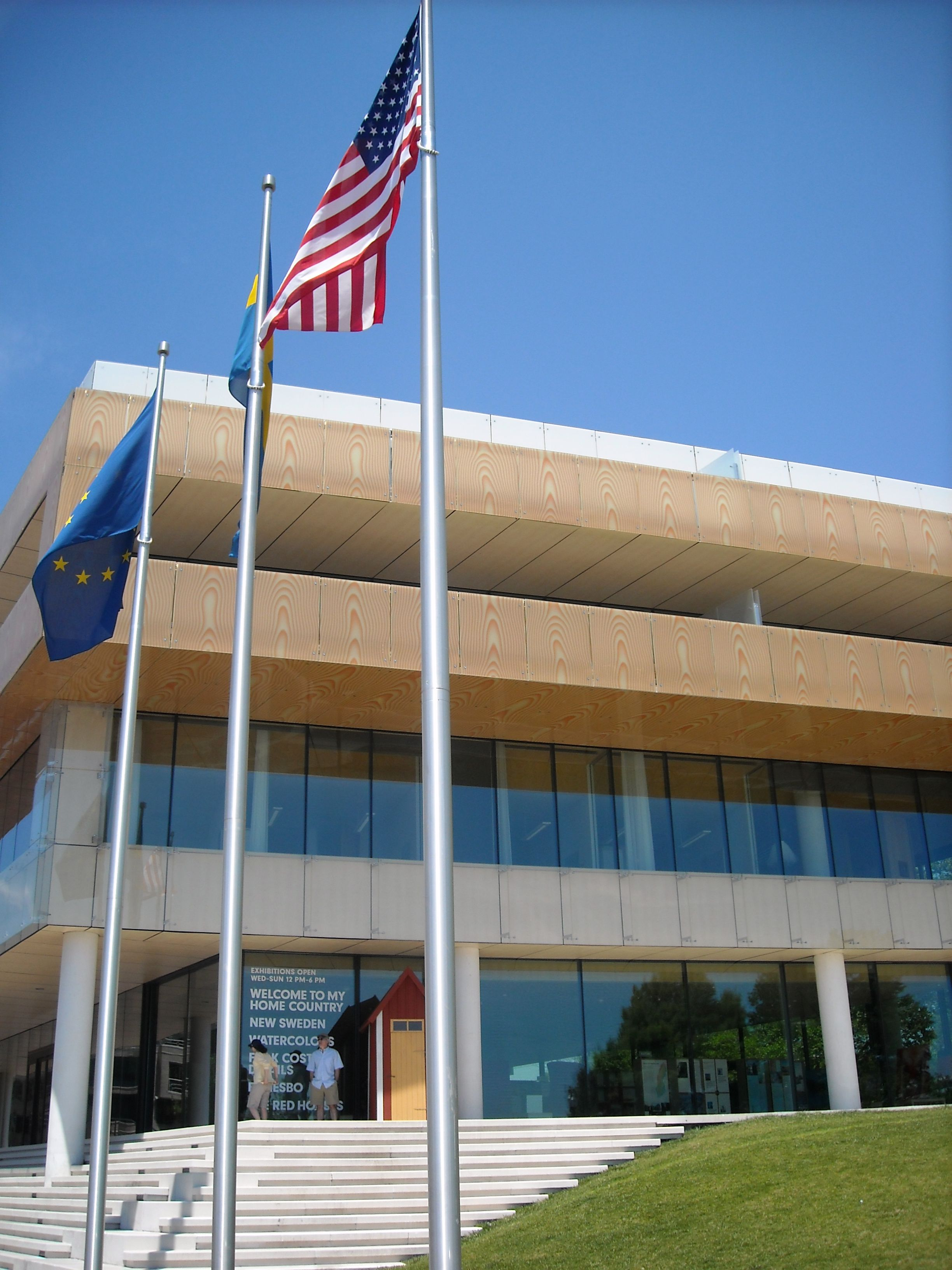 Embassy of Sweden to the United States. Located in Washington, D.C. at Washington Harbour.